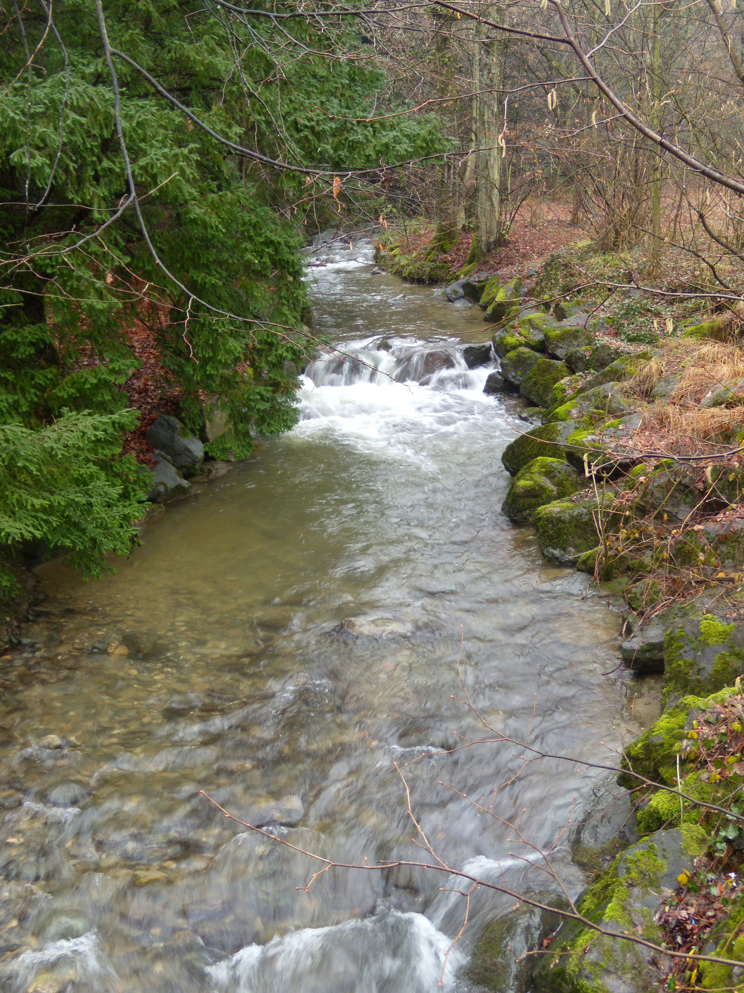 The Vuachère river between Pully and Lausanne, a few meter before it gets into the Leman lake